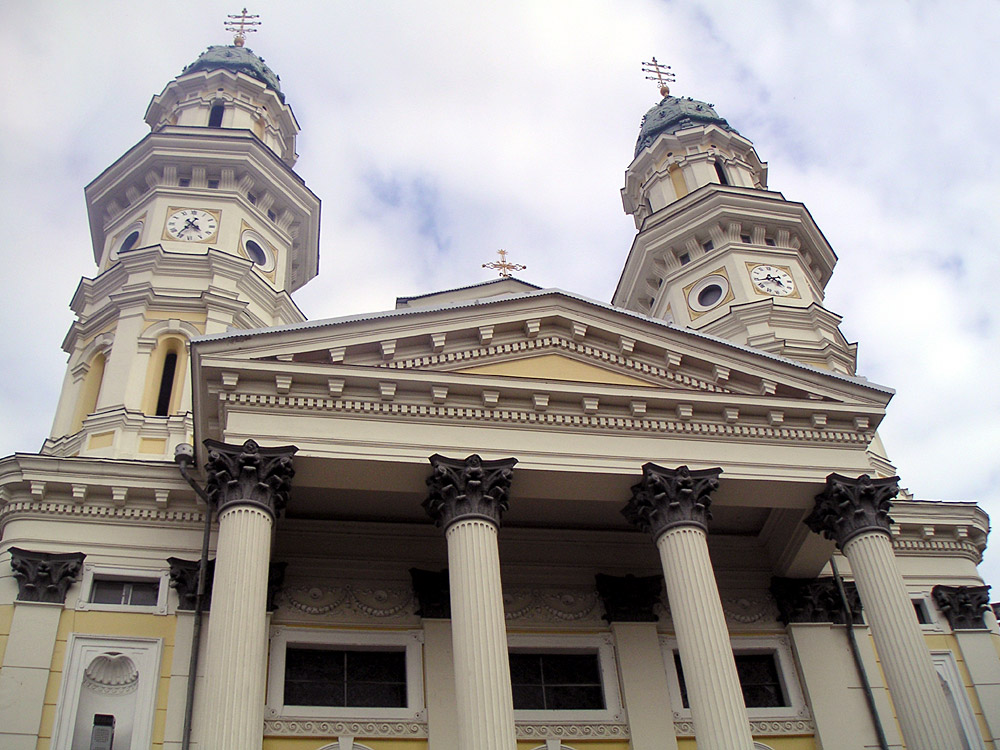 Uzhhorod, Ukraine, Greek-catholic Cathedral